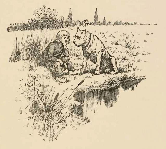 Image from Nello and Patrasche, from "A dog of Flanders"